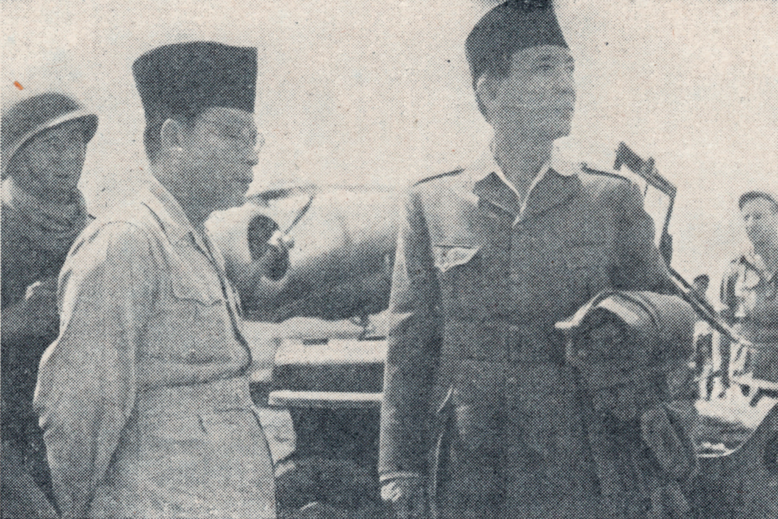 Sukarno and Mohammad Hatta before their exile to Brastagi, North Sumatra by B-25. Yogyakarta.